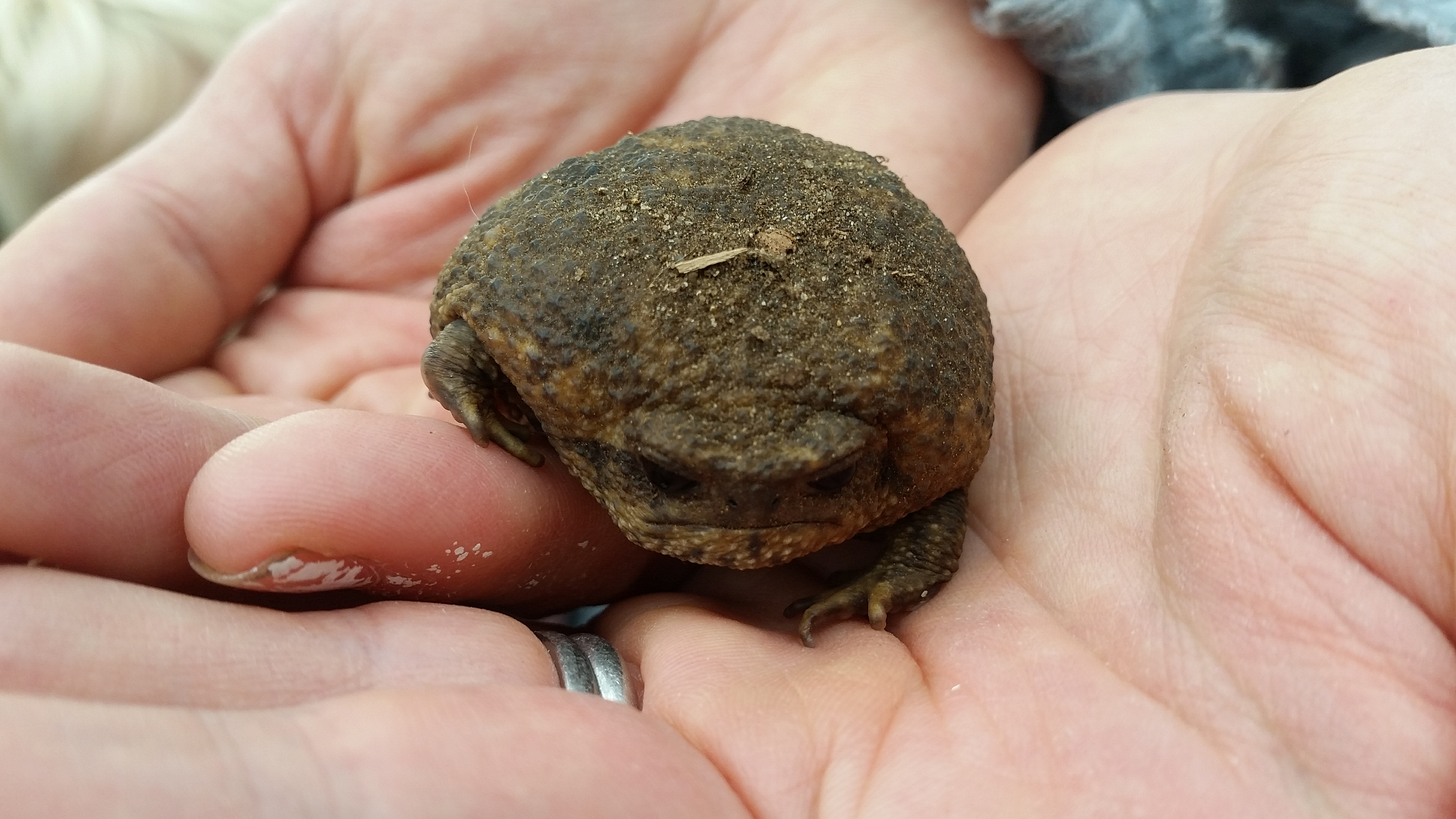 Cape Rain Frog, Claremont, Cape Town, 2014